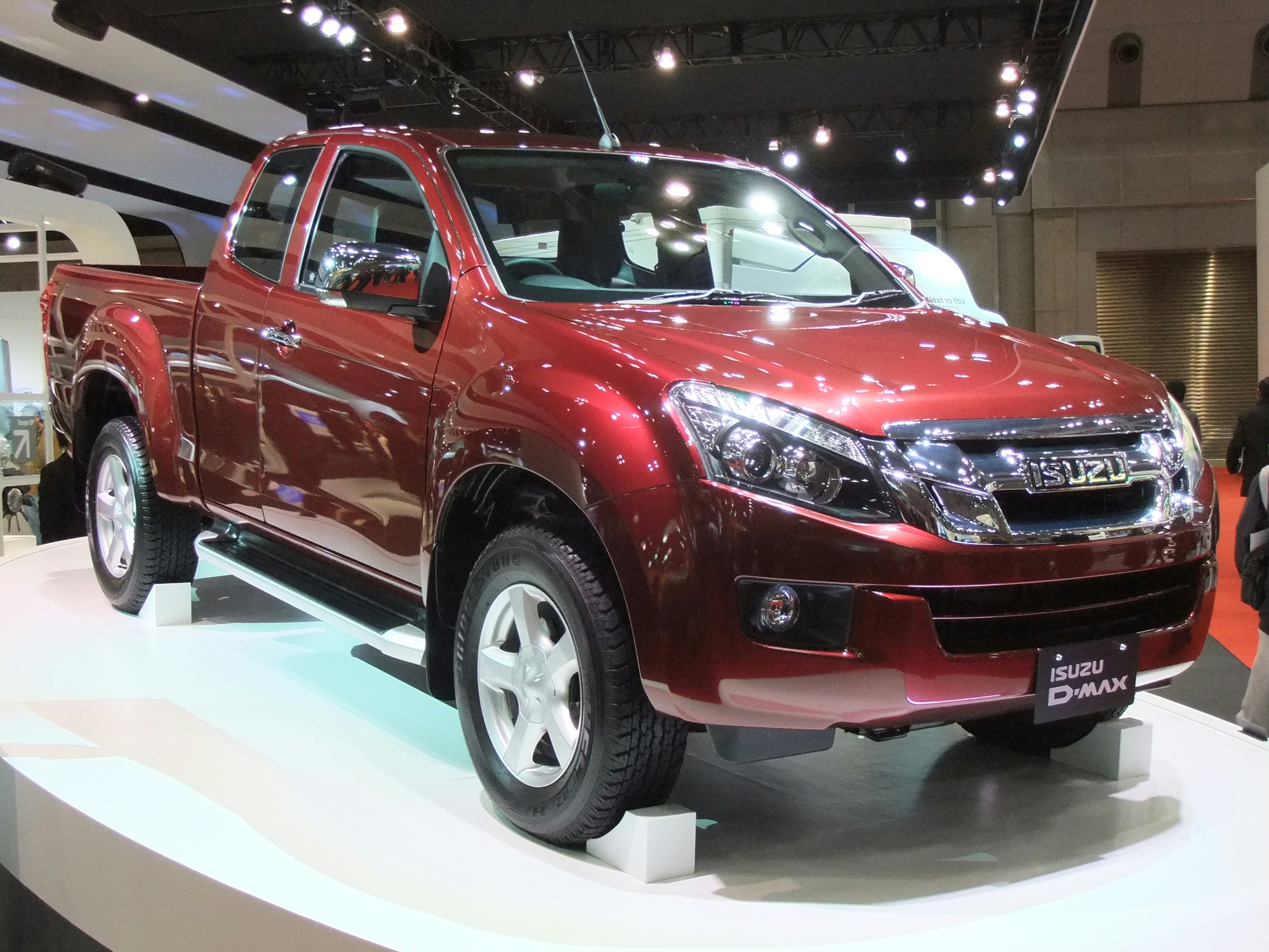 Isuzu,D-Max, 2nd Generation(Front), at Tokyo Motor Show 2011